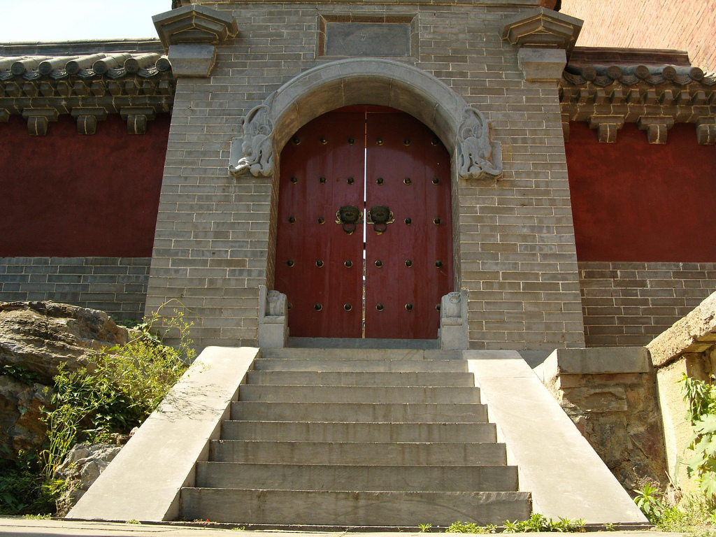 Gate of Shaolin Temple (Henan)